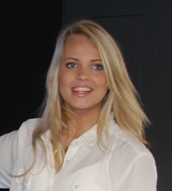 Emlile Nereng (Voe). Norway's most prominent and visited blogger 2009-2011.